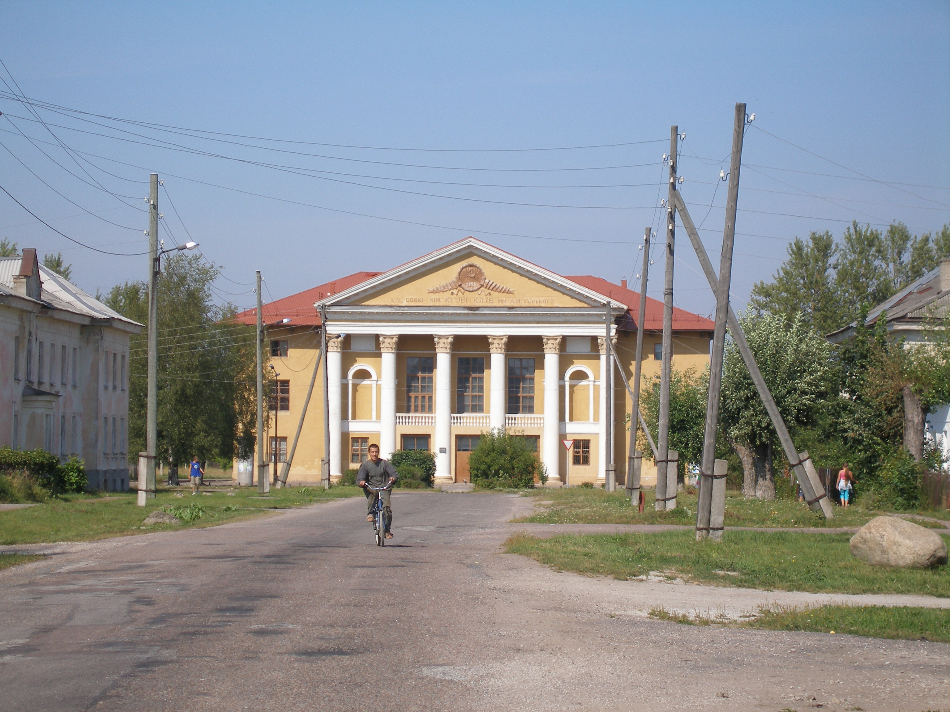 Sompa (district of Kohtla-Järve, Estonia) cultural centre, example of Stalinist architecture. Text on the pediment: Club named after A.M. Gorki.